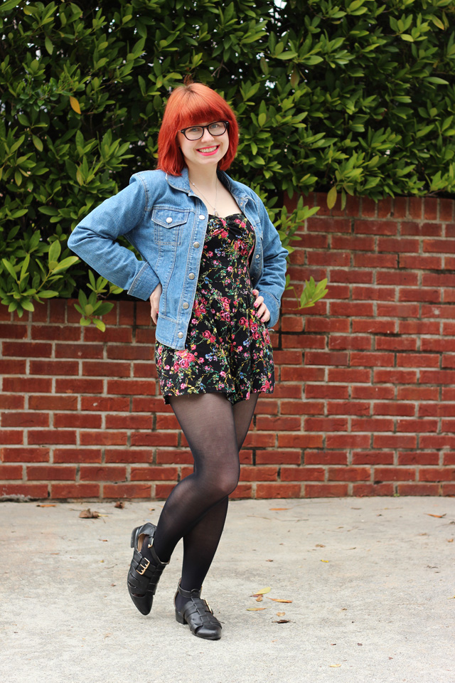 Denim Jacket, Floral Print Target Playsuit, Black Tights, and Cutout Flats Model